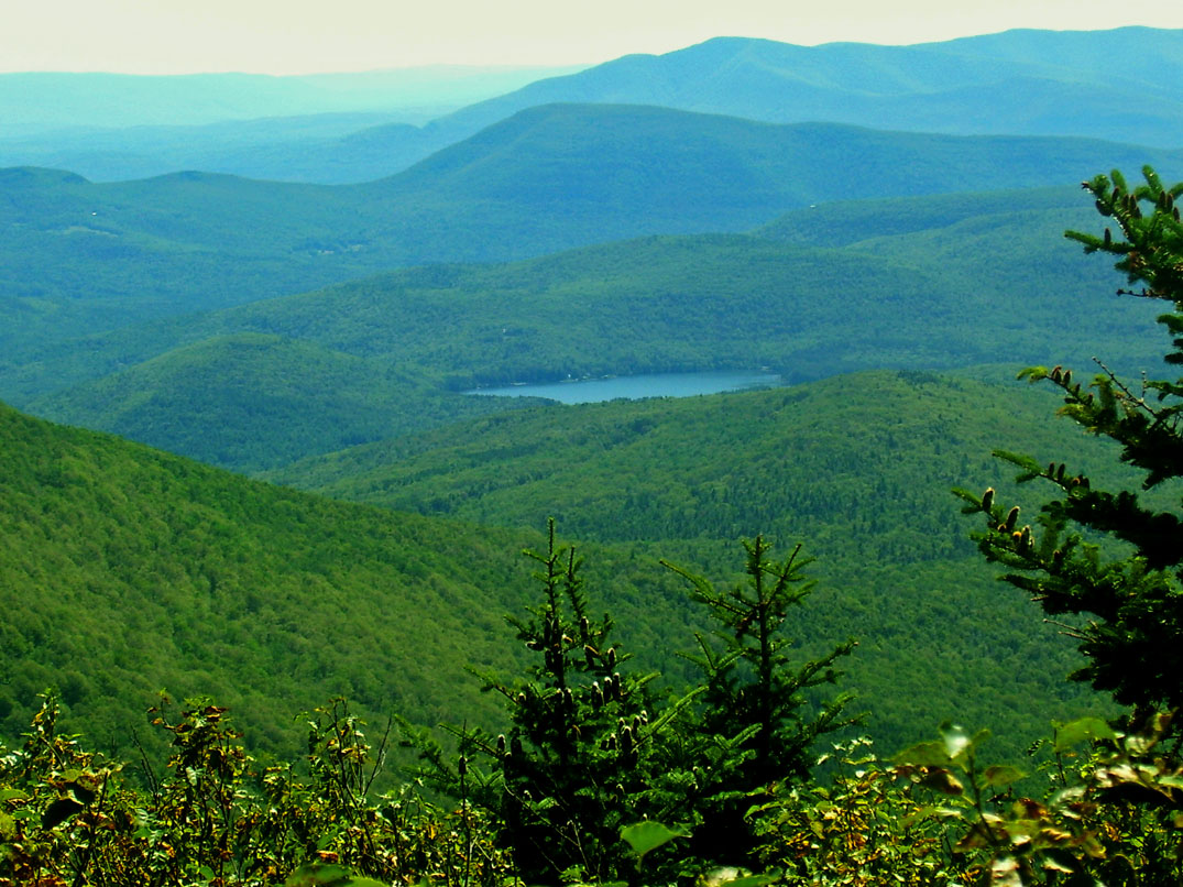 Photographed by Daniel Case 2006-08-12.